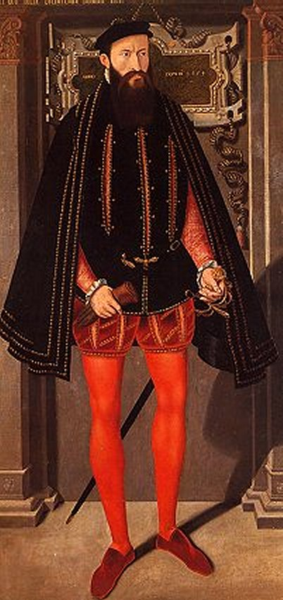 William V. (William the Rich) (*1516, 1592), duke of Jülich, Cleves and Berg (1539-1592), count of Mark and Ravensberg (1539-1592), duke of Guelders (1538-1543)